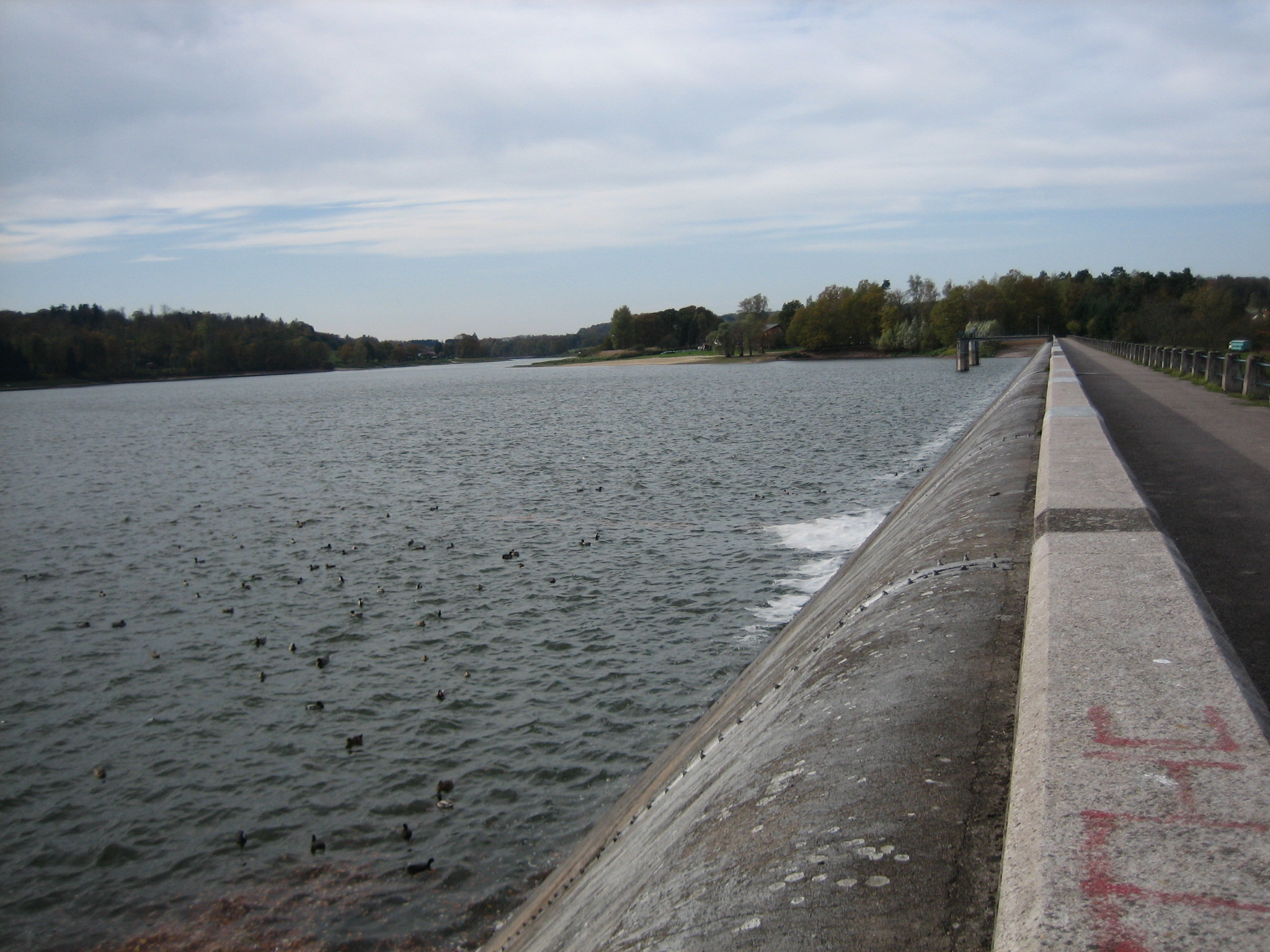 Partial view of the artificial lake located in Bouzey (France)